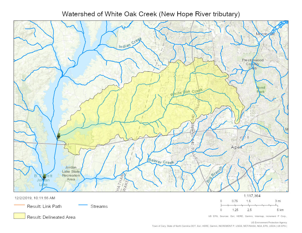 Map of the watershed of White Oak Creek (New Hope River tributary) in Chatham and Wake Counties, North Carolina.